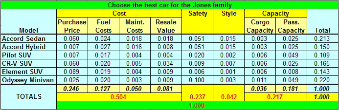 Part of a series of images to illustrate an article on the Analytic Hierarchy Process